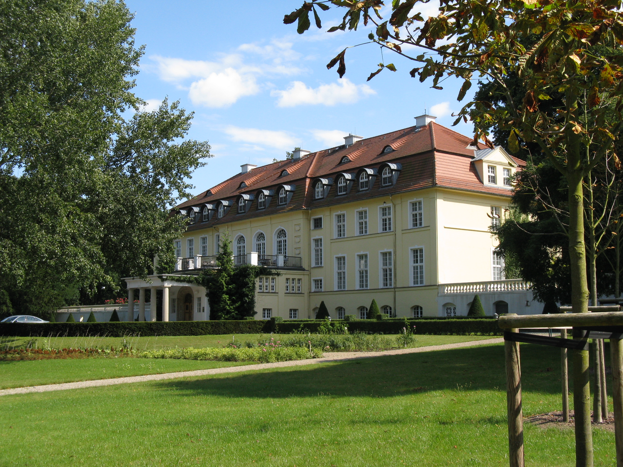 Former manor house in Hasenwinkel, Mecklenburg-Vorpommern, Germany